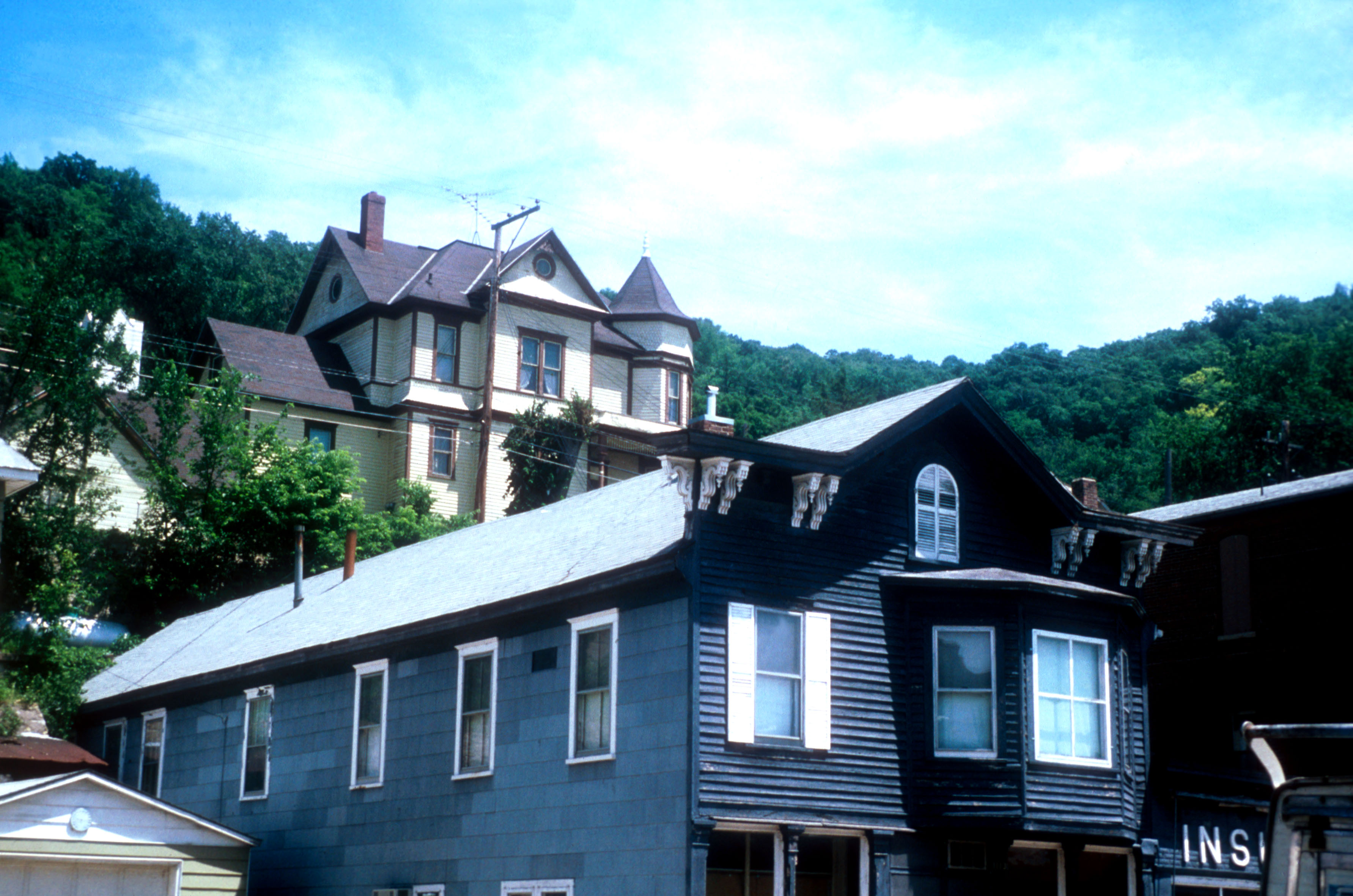 Architecture in Alma, Wisconsin, USA: Gothic Revival and Queen Anne homes with second story balconies. The source has the image incorrectly identified as a Fountain City picture when it is actually a picture of the Bautch Insurance building and the Ibach residence in Alma, Wisconsin.